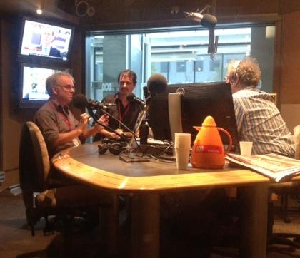 Dr Glen Chilton on The Conversation Hour with Jon Faine: ABC Melbourne, Melbourne, Australia, 5 May 2013